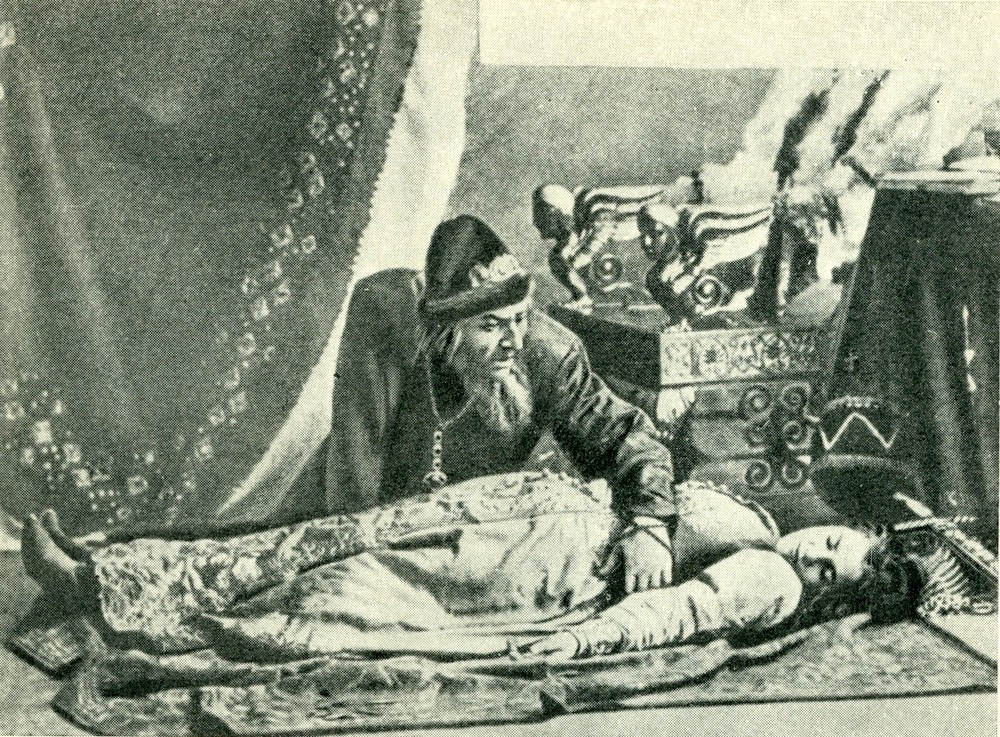 Russian bass, Feodor Chaliapin (1873 - 1938)